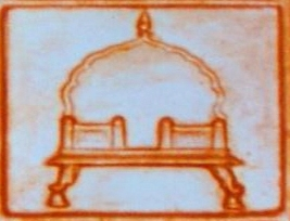 12th Auspicious dream. Dream- A very big, resplendent, golden throne set with bright diamonds and rubies. Interpretation- Son will become the World Teacher